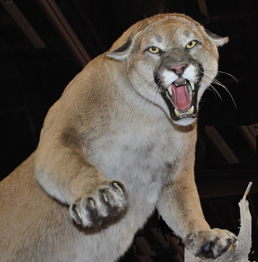 North Amerian Cougar